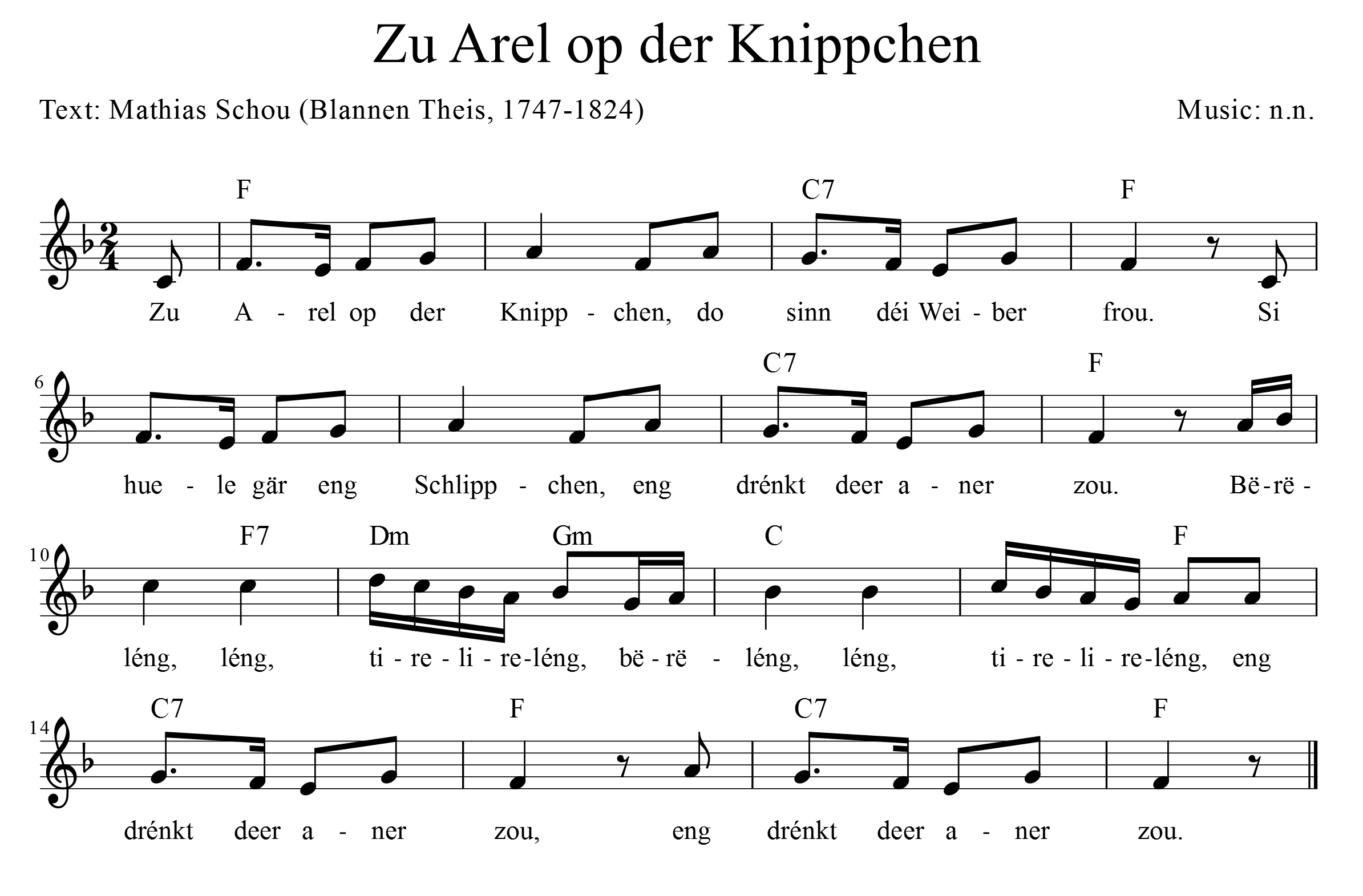 Score of traditional luxembourgian song "Zu Arel op der Knippchen". Text by Mathias Schou (Blannen Theis) (1747-1824). The Music dates from before that time.